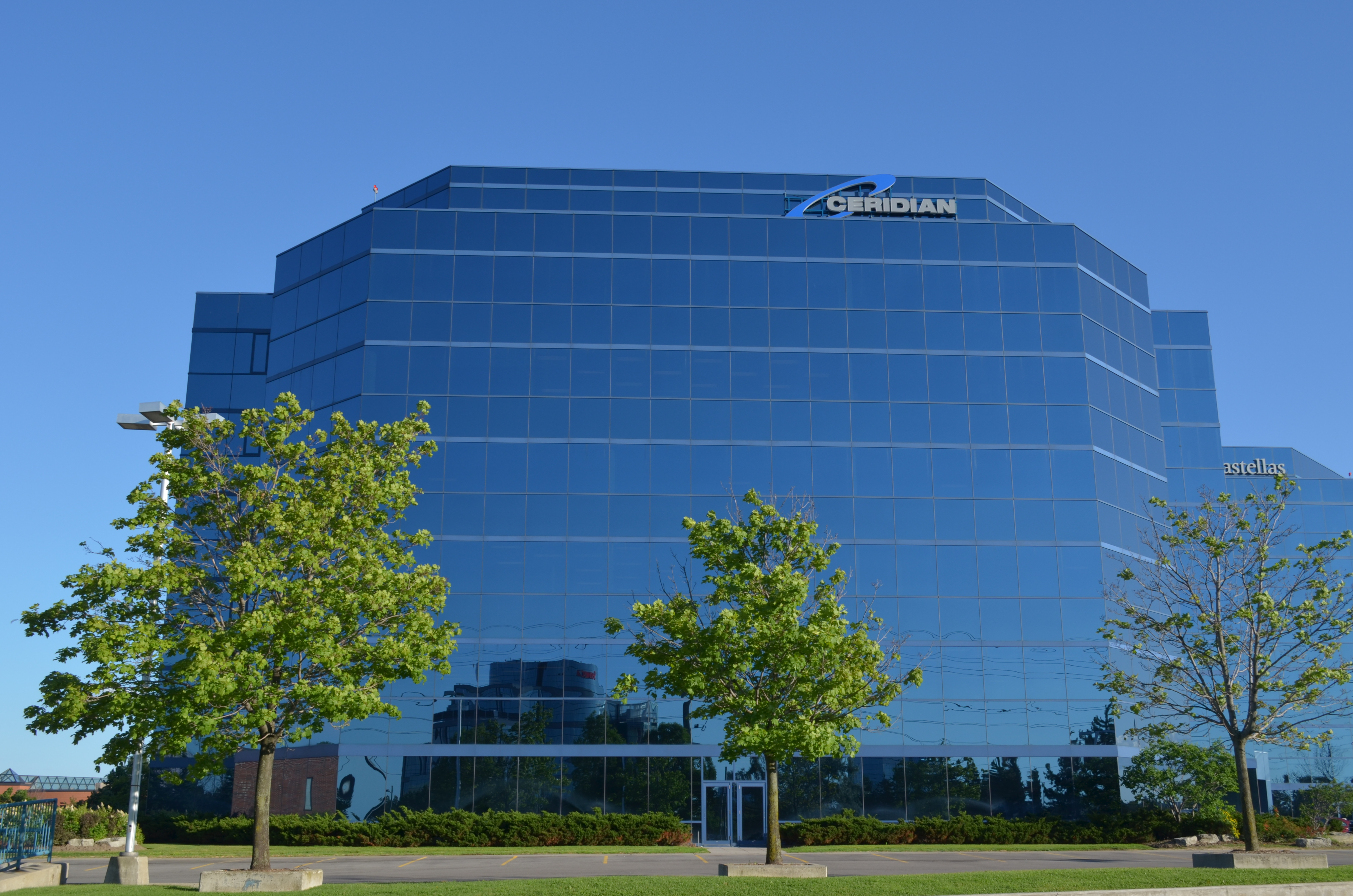 Markham Office, Ceridian Canada